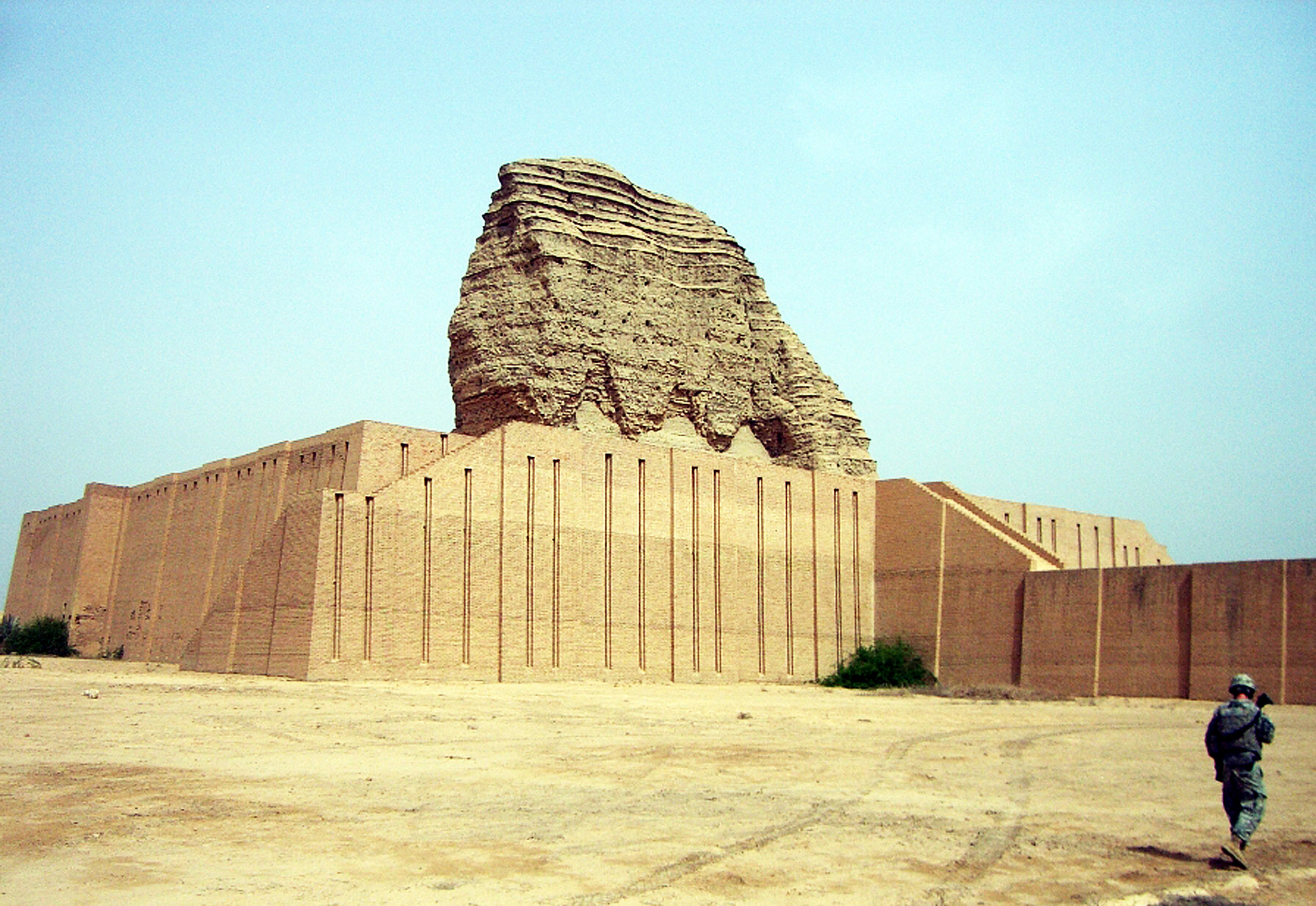 The ziggurat at Aqar Quf rises 180 feet above the desert west of Baghdad. Soldiers of the 16th Engineer Brigade's Survey and Design Team traveled to the ancient ziggurat in Aqar Quf, March 11, to assess and verify the electrical needs of two modern structures on the site. The U.S. Army 4th Stryker Brigade Combat Team, 2nd Infantry Division, and Iraq's Ministry of Antiquities is seeking to restore the modern buildings around the site in an attempt to revitalize tourism in the area